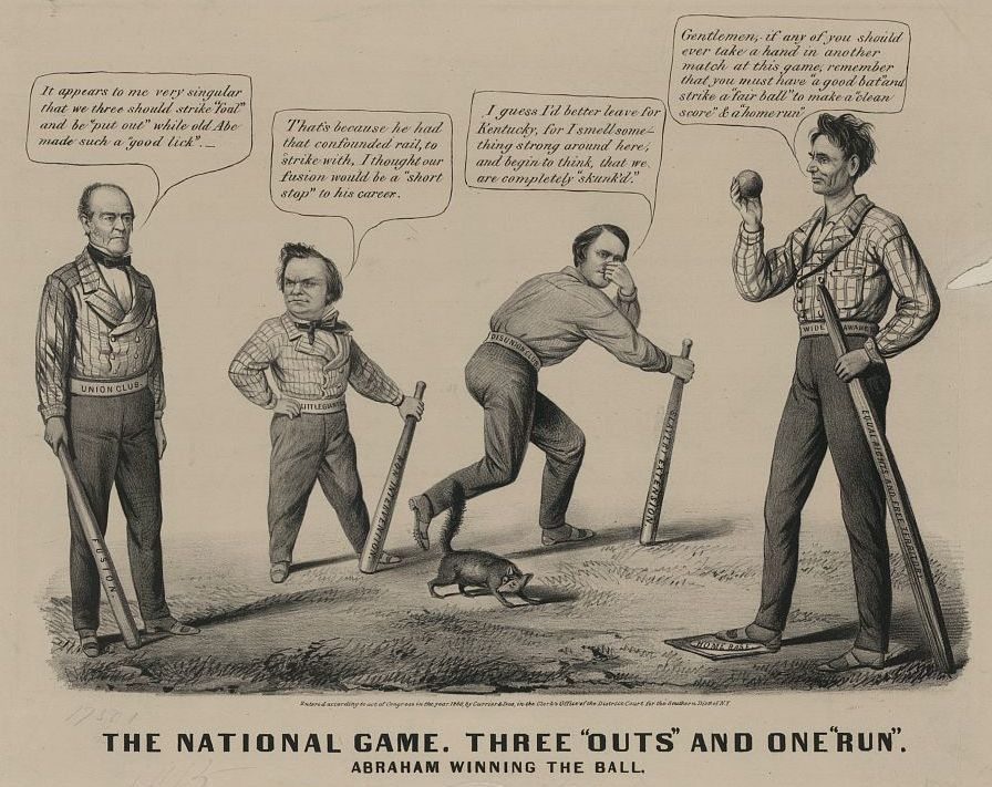 "The National Game. Three Outs and One Run." Drawing depicting the four candidates of the 1860 United States presidential election (L to R): John Bell, Stephen Douglas, John C. Breckinridge, and Abraham Lincoln. The artist is comparing the election to a baseball game.